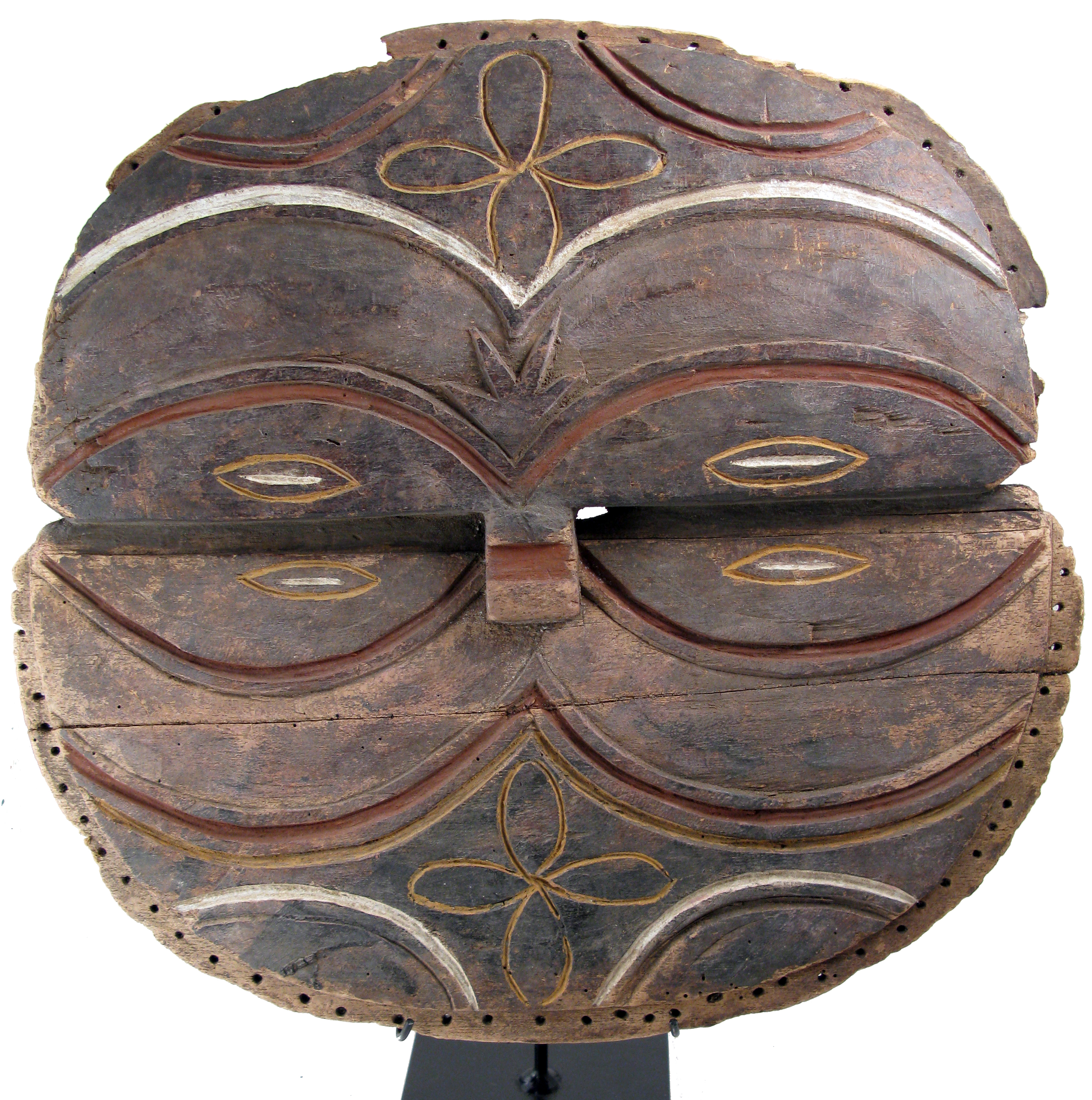 This old mask displays excellent signs of age and use and continues to maintain its integrity even with erosion and village repair. Measures 40x42x7cm Originally adorned with a ring of feathers and a collar of raffia fiber, this variety of mask was worn in acrobatic performances. The circular mask is divided into two parts at the level of the eye slits–an upper half that protrudes slightly outward and a sunken lower half–yet the overall dynamic relief pattern disguises the two levels dominated by large eyes that unite the two planes and various facial features with scarification or lunar crests arching along the edges. Teke Masks are worn by members of the Kidumu society either during the funerals of chiefs, or weddings or important meetings. They are circular in Shape, are bisected by a horizontal stripe and are decorated with geometric designs filled with black, white and red pigments The tribal arts of Africa, Jean-Baptiste Bacquart For a quick preview of our latest exhibition visit our FaceBook page. If you double click an image, click the actions tab then scroll to view all sizes you will be able to view large full size images Further information or more images of individual pieces please contact us with image number: Ann Porteus Sidewalk Tribal Gallery 19-21 Castray Esplanade, Battery Point 7004 Hobart Tasmania Australia t: 613 6224 0331 ABN 99 900 255 141